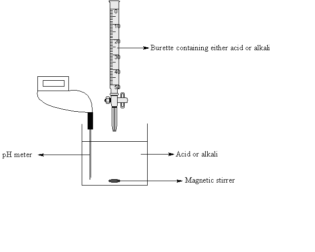 Diagram of equipment used for a titration of an acid and alkali.